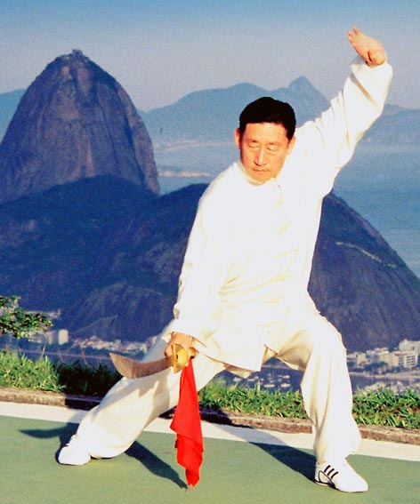 Chen Xiao Wang in Rio